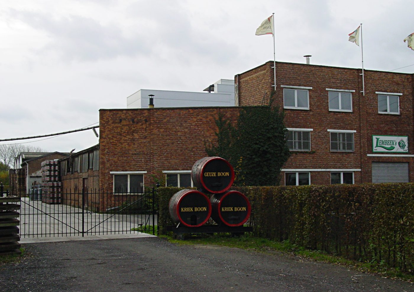 The Boon Brewery in Lembeek. Photograph taken by David Edgar on 12th November 2006.